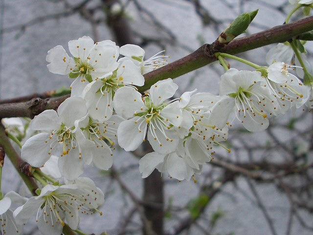 Plum blossom Victoria plums do very well in Perth, and many established gardens contain a tree or two.